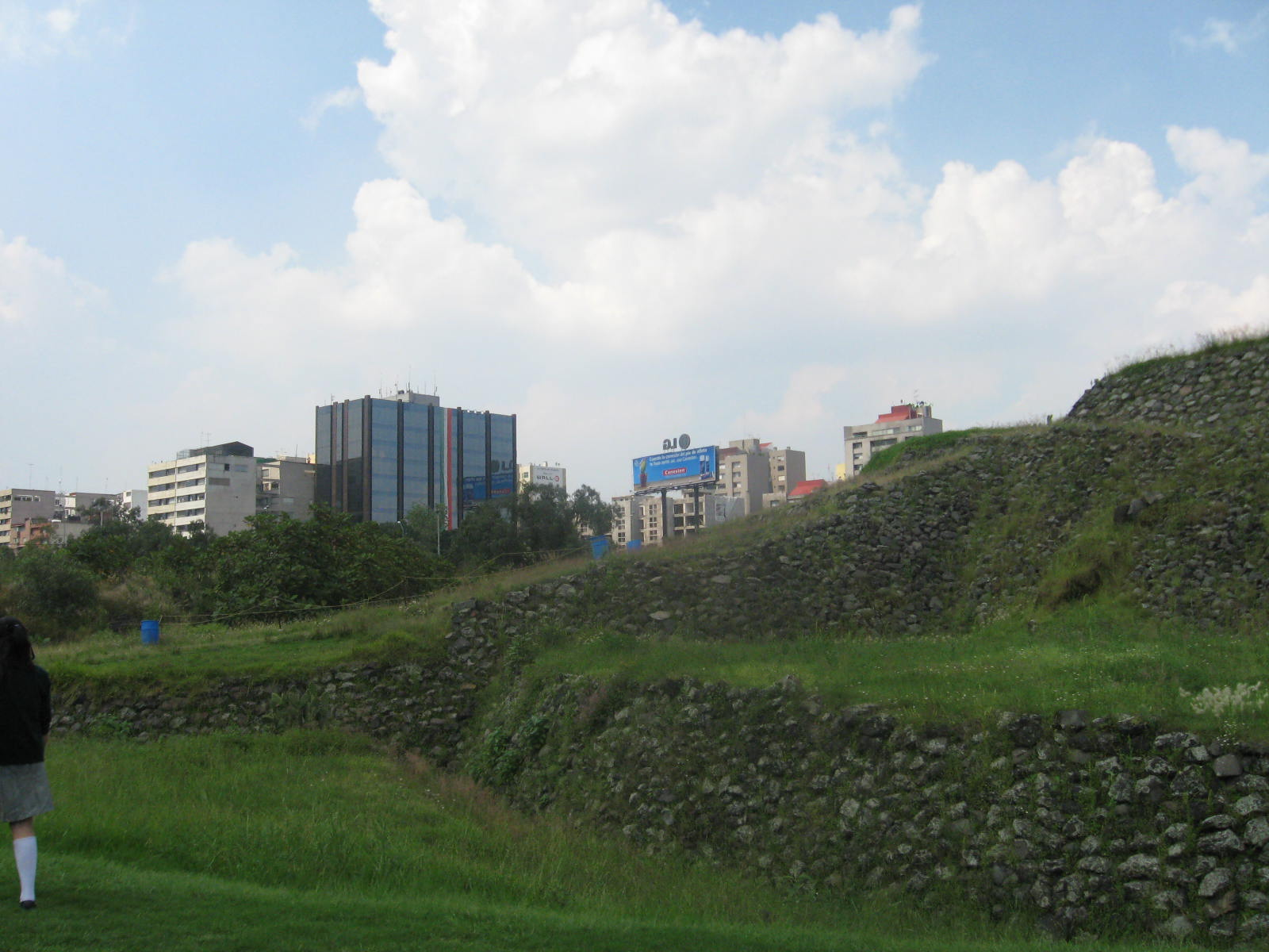 Portion of the Cuicuilco pyramid with modern buildings of the Villa Olimpica neighborhood in the background, Mexico City